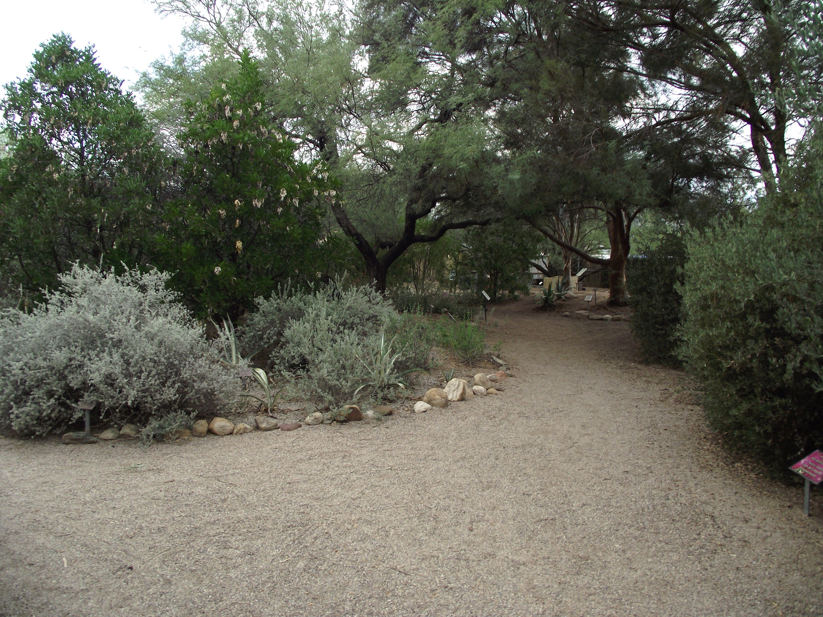 Tucson Botanical Gardens, Tucson, AZ, USA.